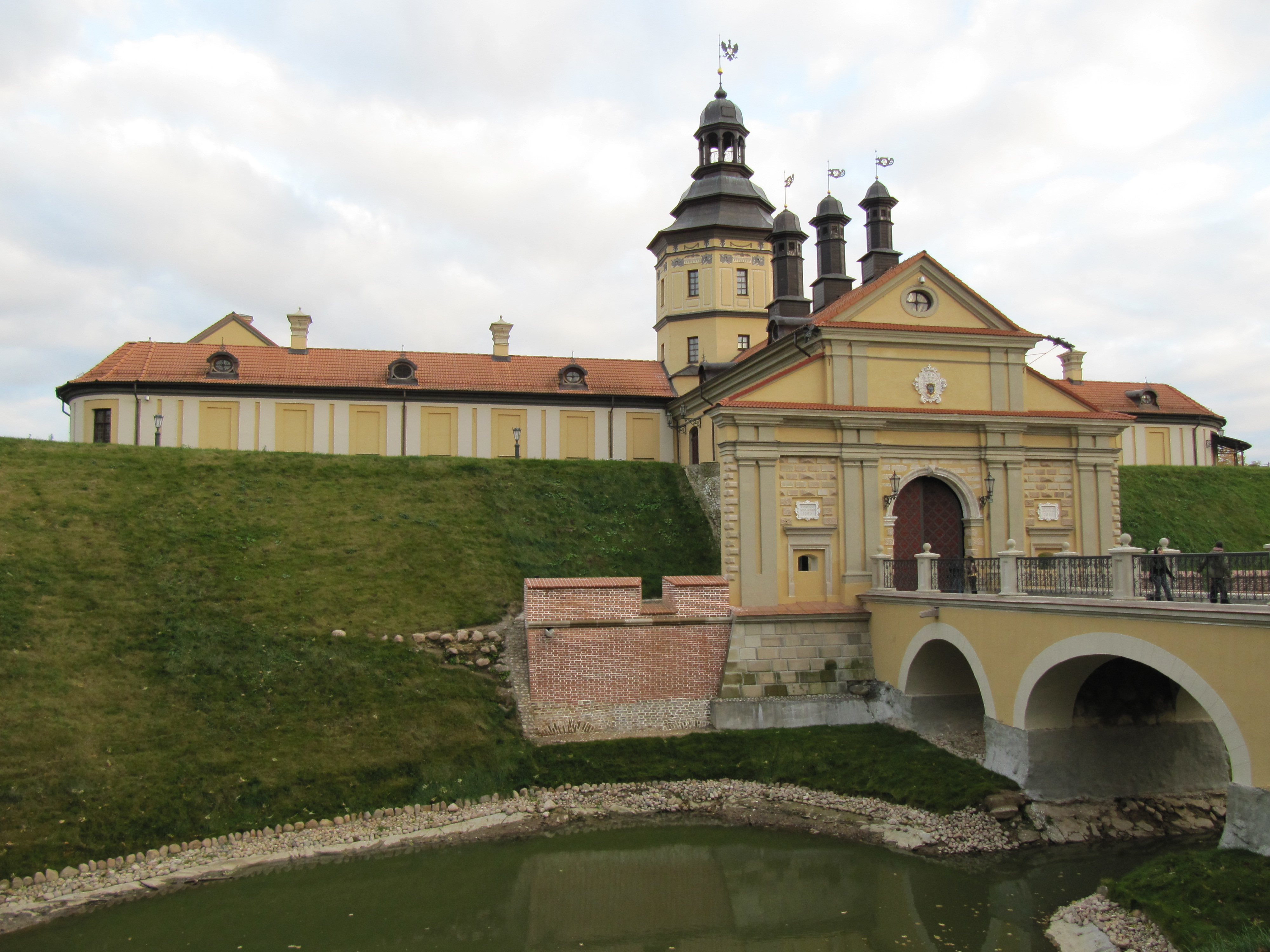 The central gate This is a photo of Belarusian heritage monument. Reference number: 610Г000466 ( WLM)